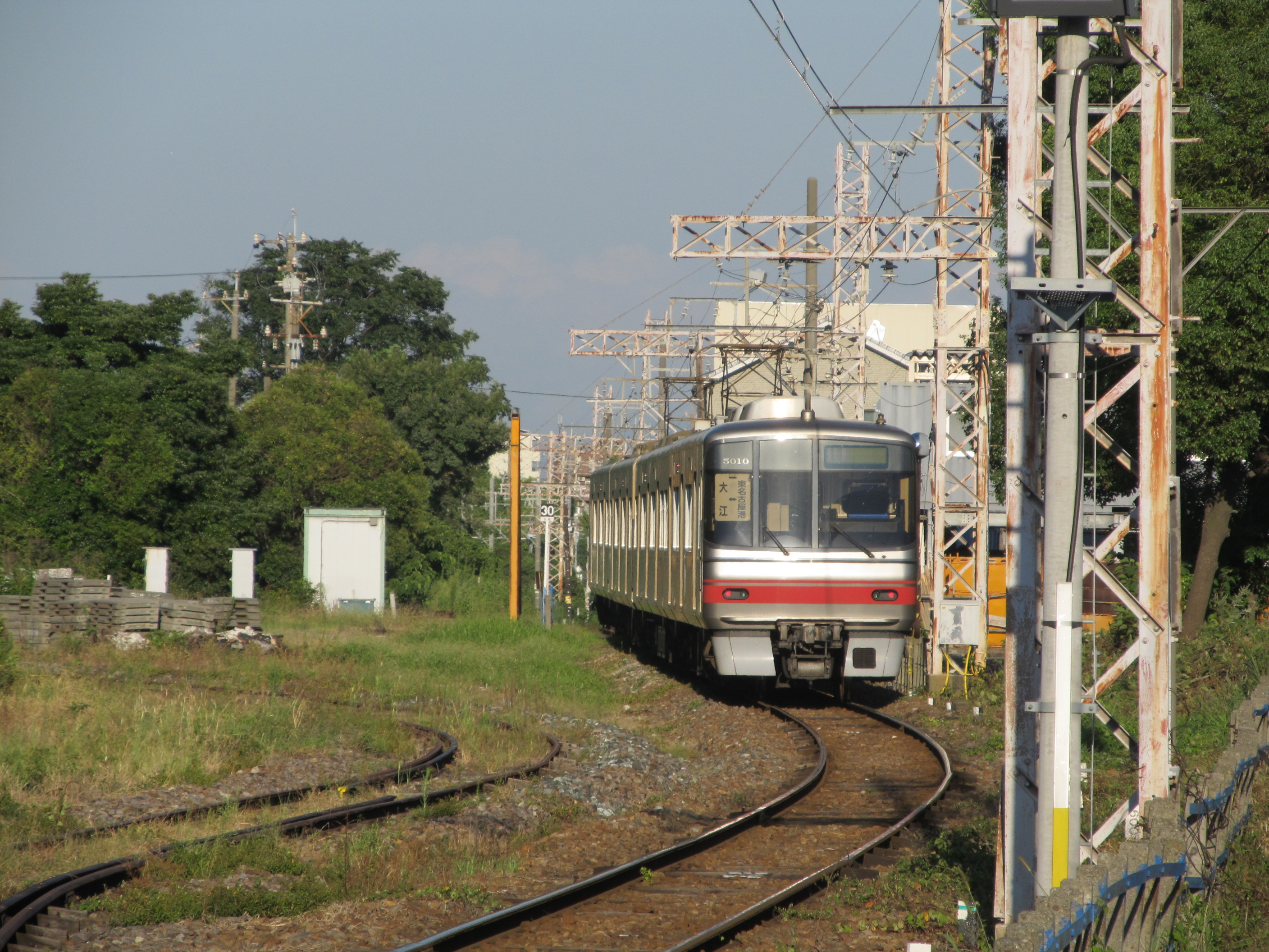 Meitetsu 5000 series. Around Meiden Chikkō Station.